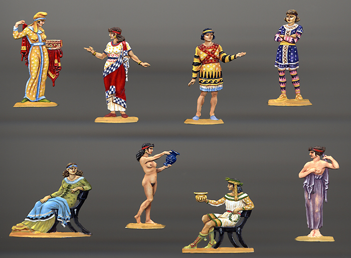 30mm flat tin figures, Lydian court, 5th c. B.C. Drawing L. Madlener, engraving L. Frank, edition A. Retter, painting Louis Liljedahl